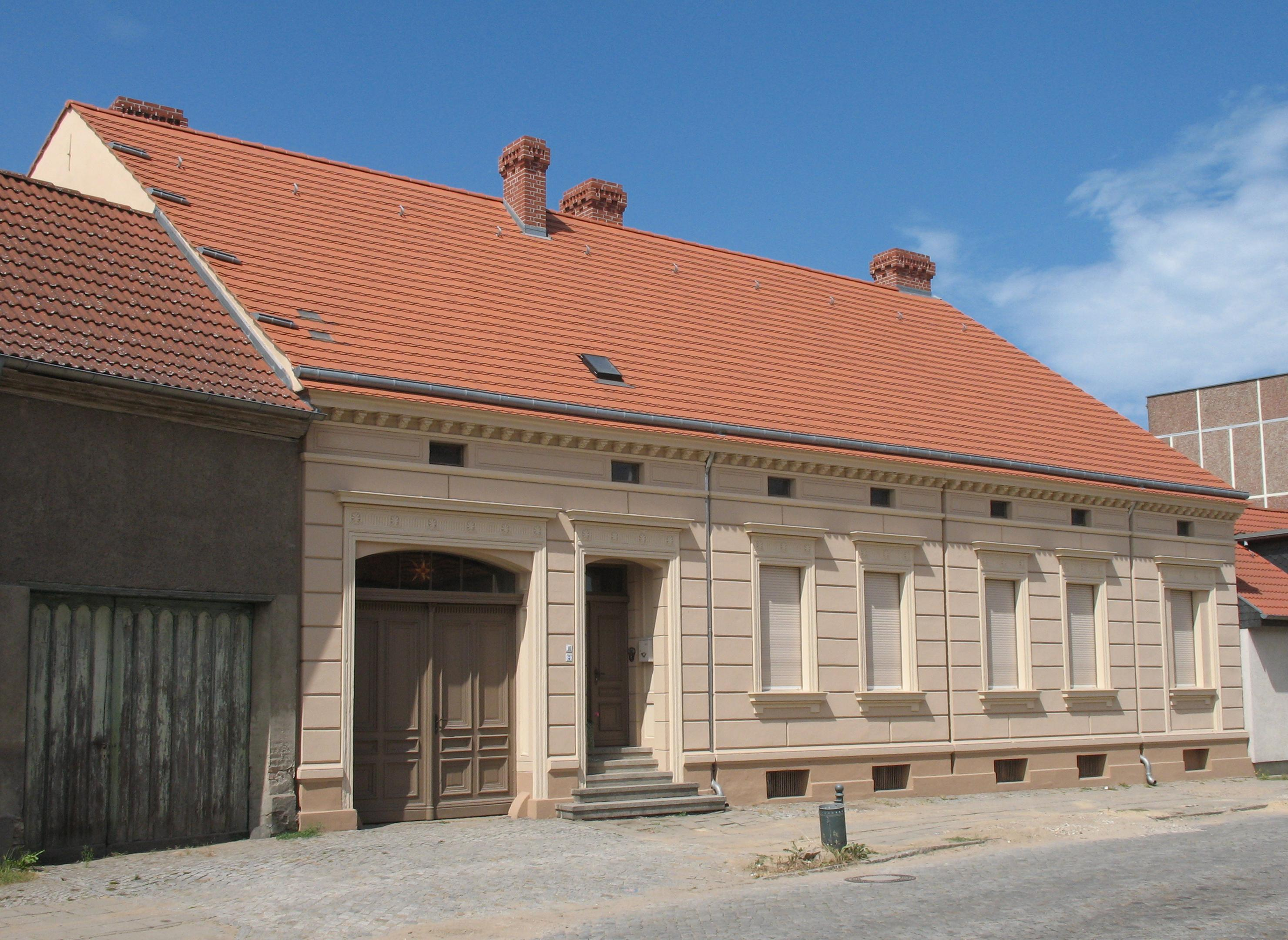 Building in Liebenwalde in Brandenburg, Germany